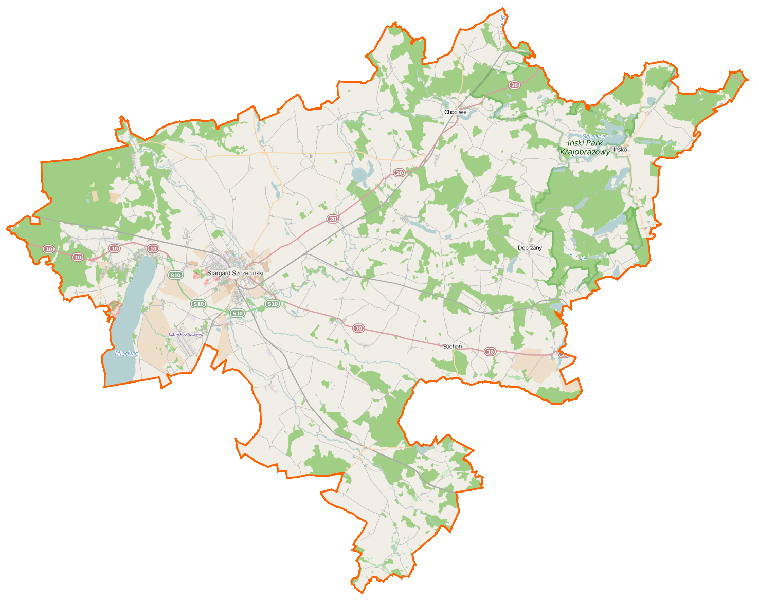 Map of Powiat stargardzki, Poland This map of Powiat stargardzki was created from OpenStreetMap project data, collected by the community. This map may be incomplete, and may contain errors. Don't rely solely on it for navigation.